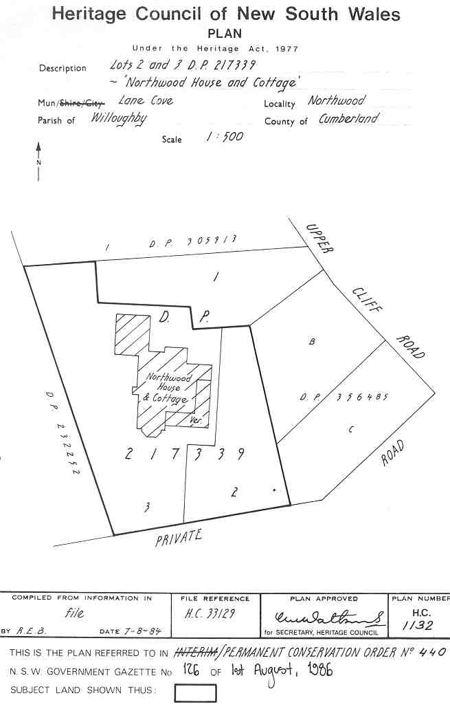 Northwood House, Northwood: PCO Plan Number 440